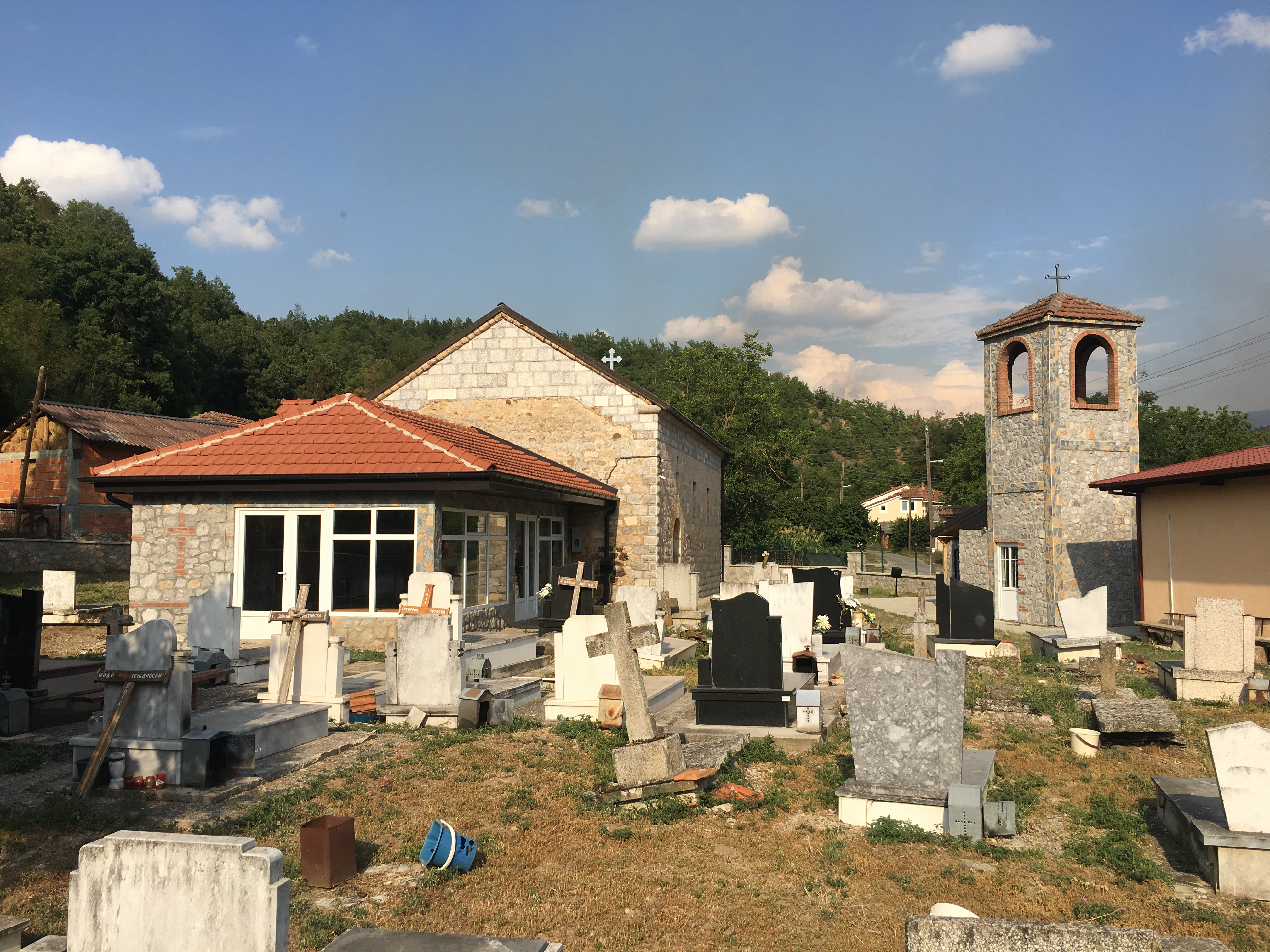 St. Nedela Church in the village of Vapila